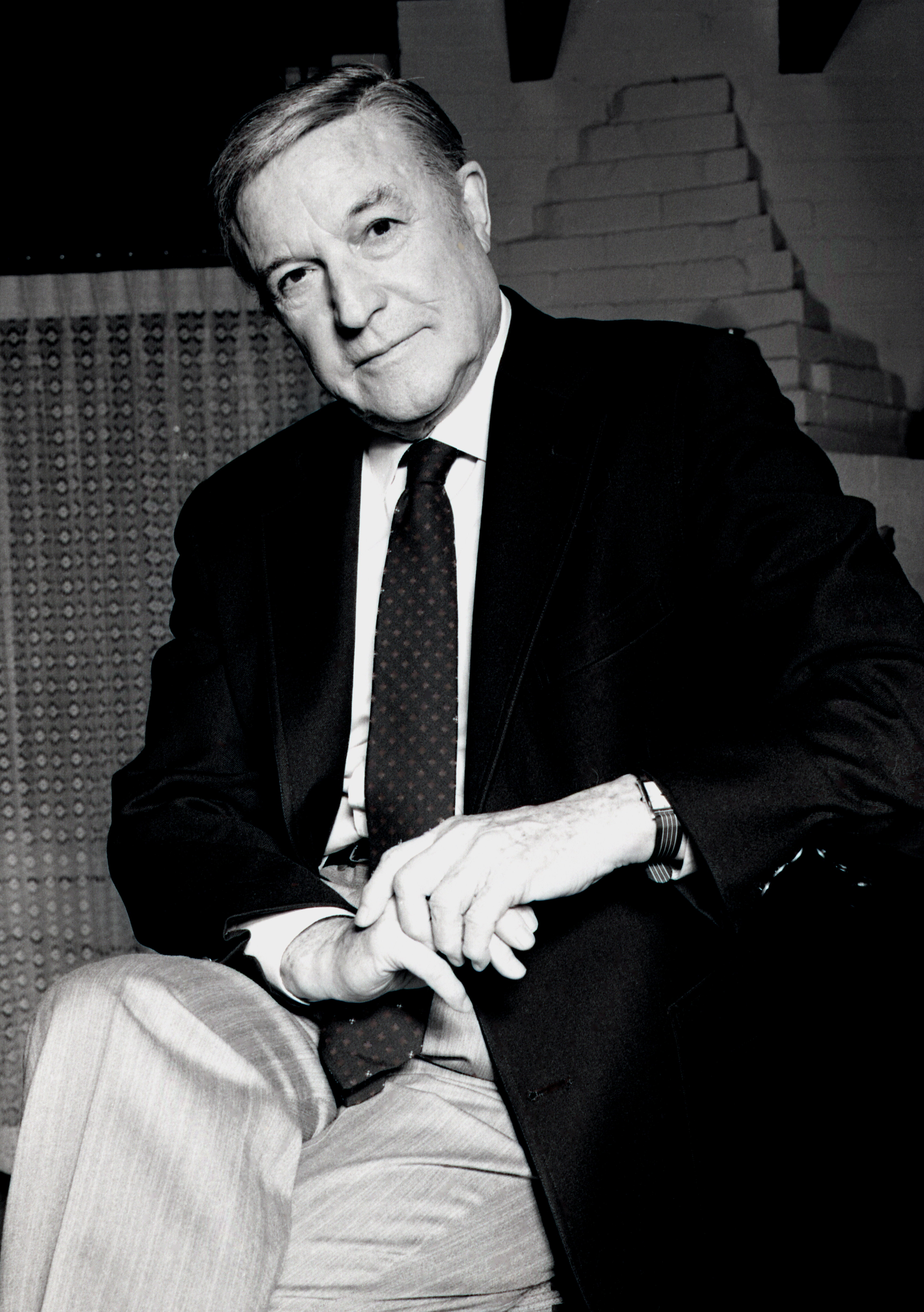 portrait of Gene Kelly